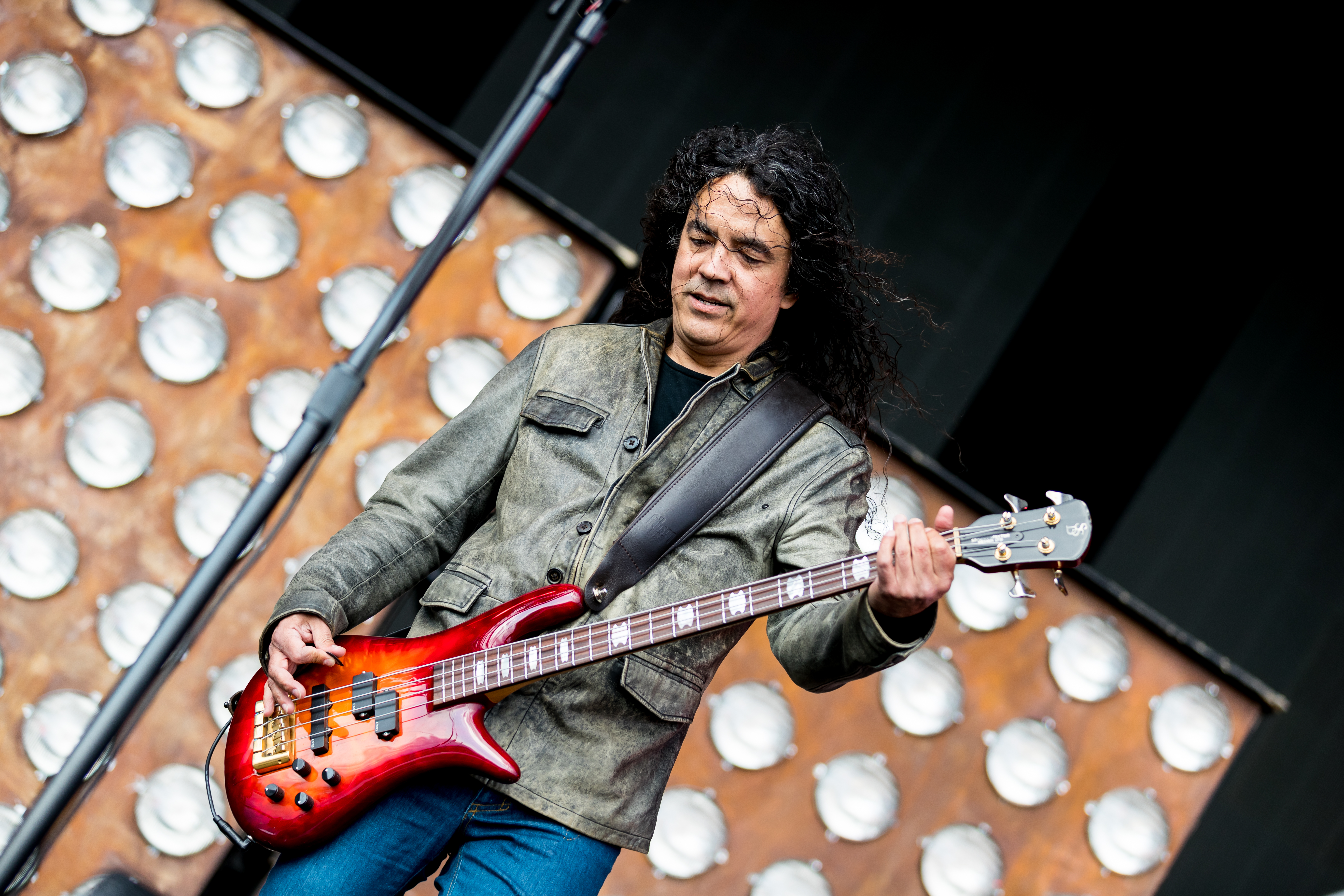 Alice in Chains during Rock am Ring ( at Nürburgring, Rheinland-Pfalz, Germany on 2019-06-07, Photo: Sven Mandel Promotion by Live Nation (